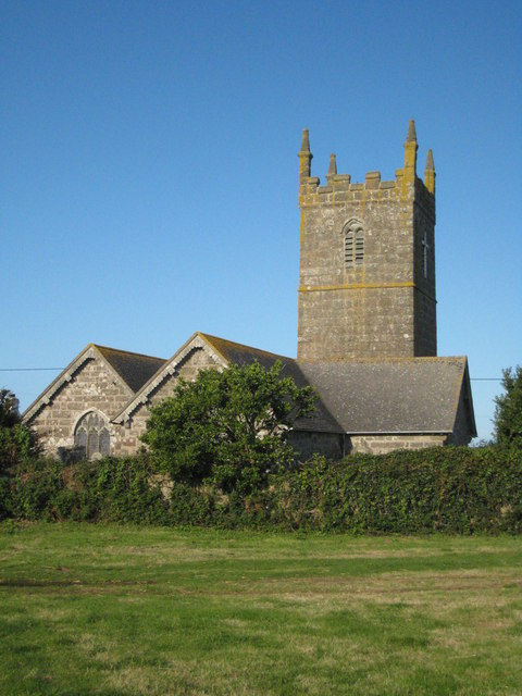 The Parish Church of St Sennen